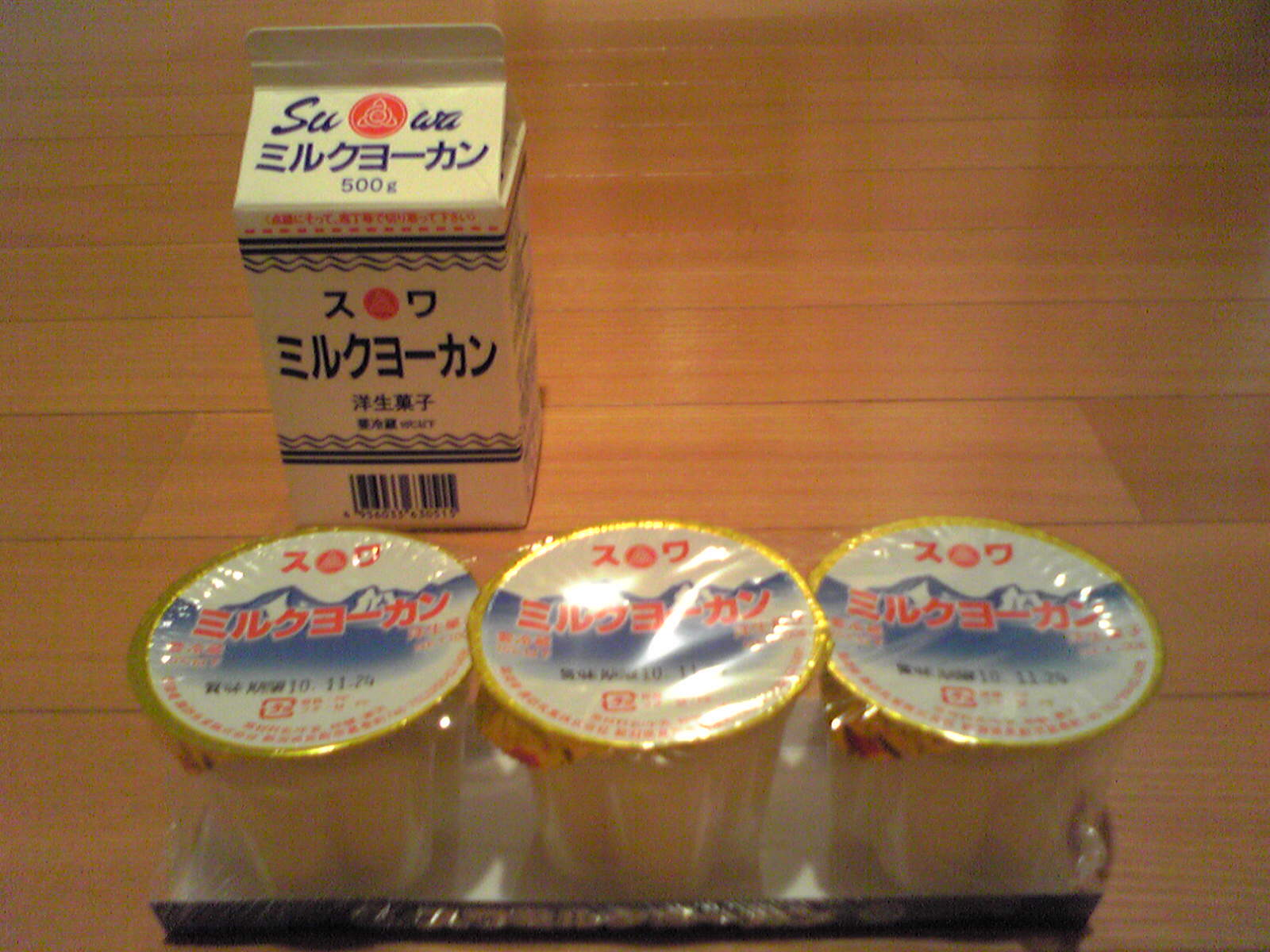 Milk Yokan